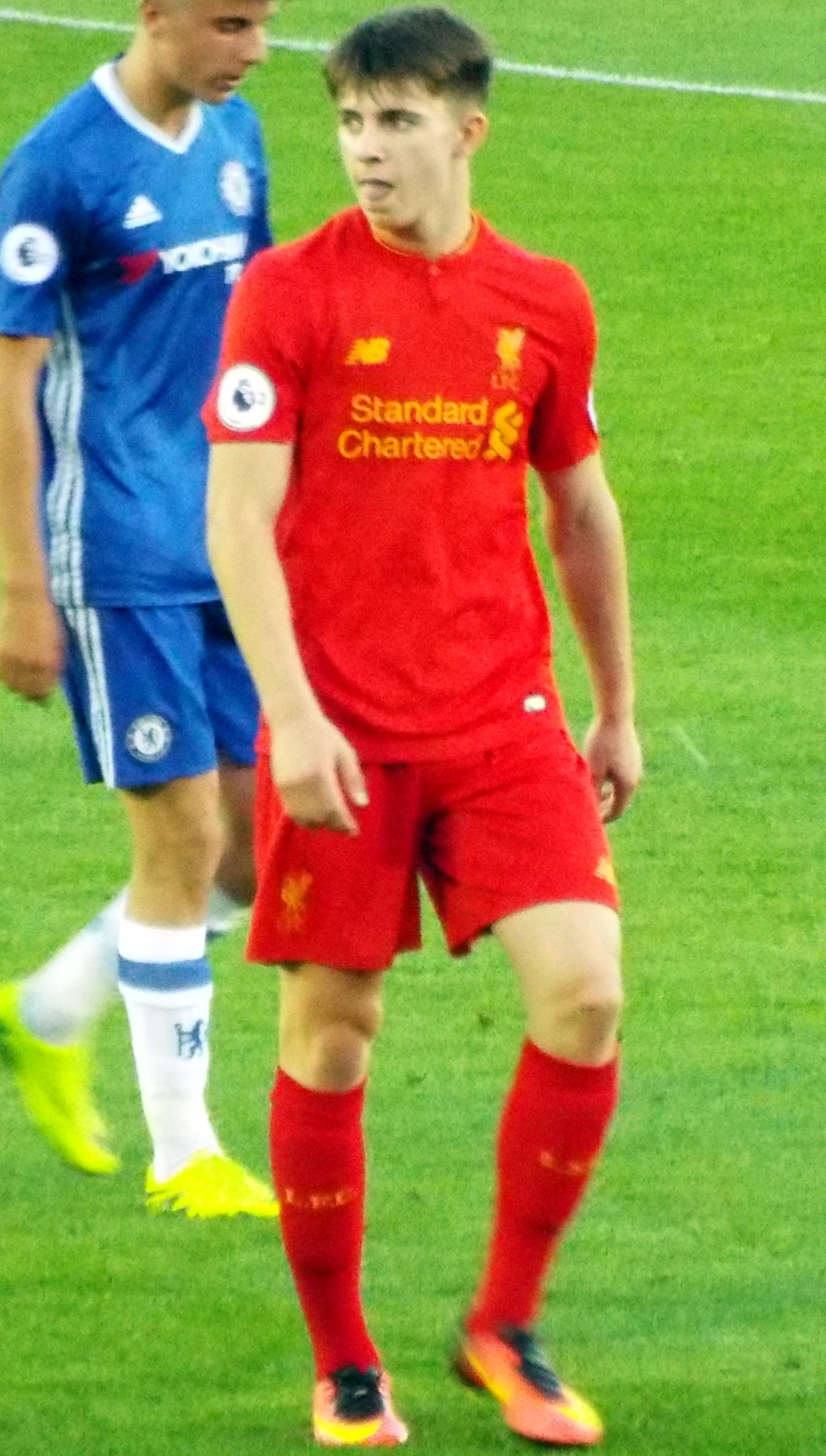 Ben Woodburn